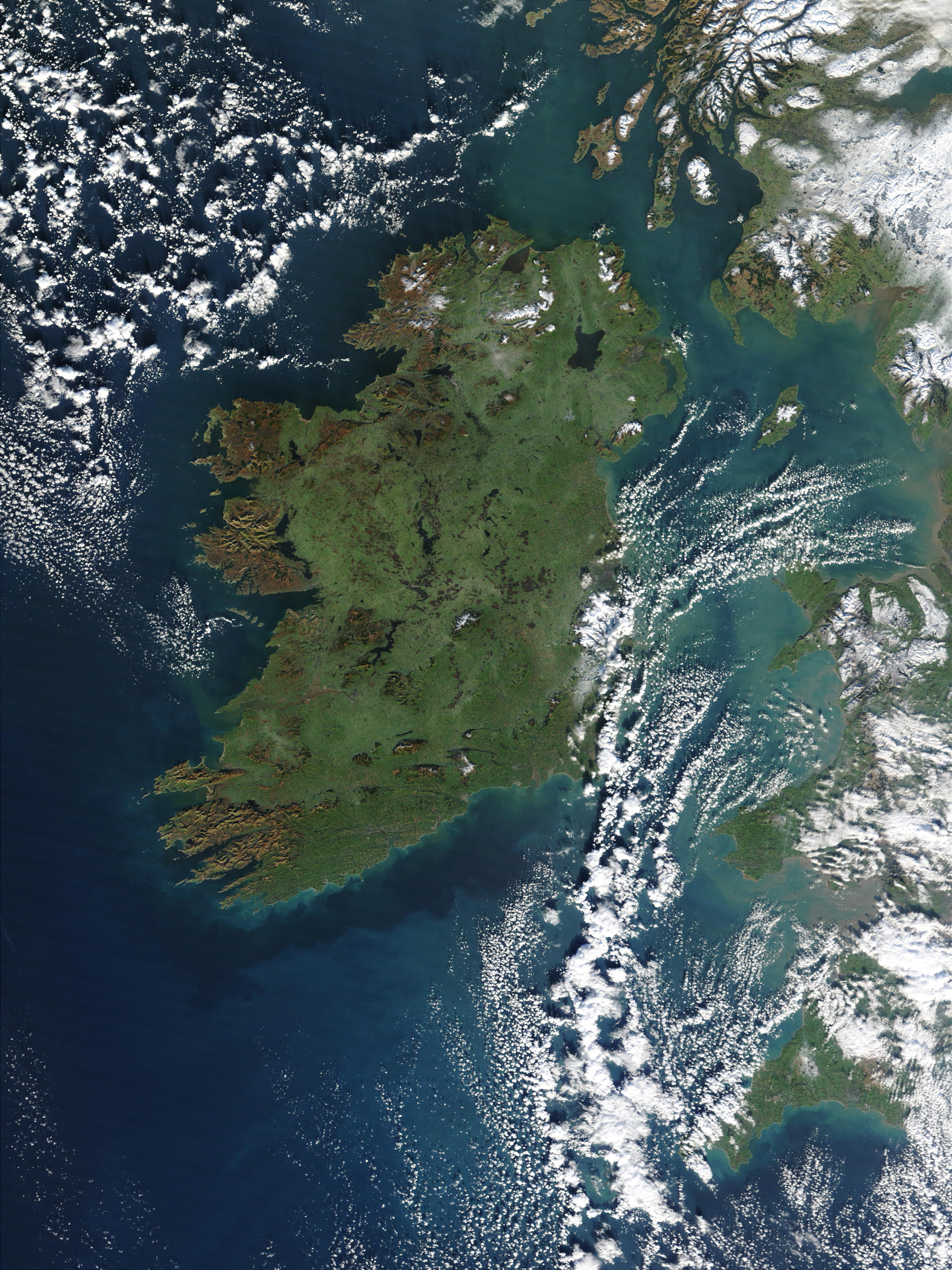 A true colour image of Ireland captured by a NASA satellite